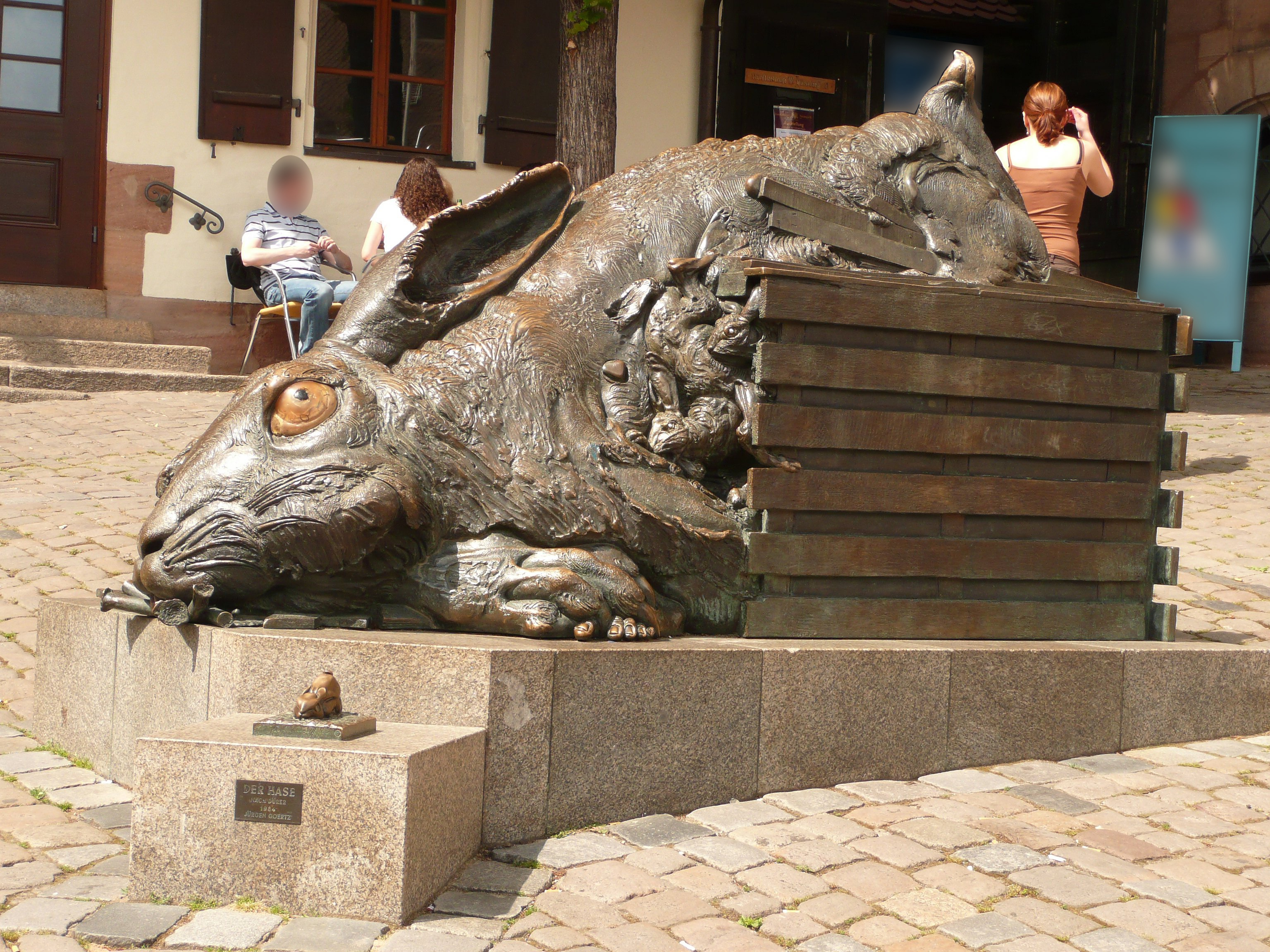 Sculpture "Der Hase" by Jürgen Goertz in Nuremberg